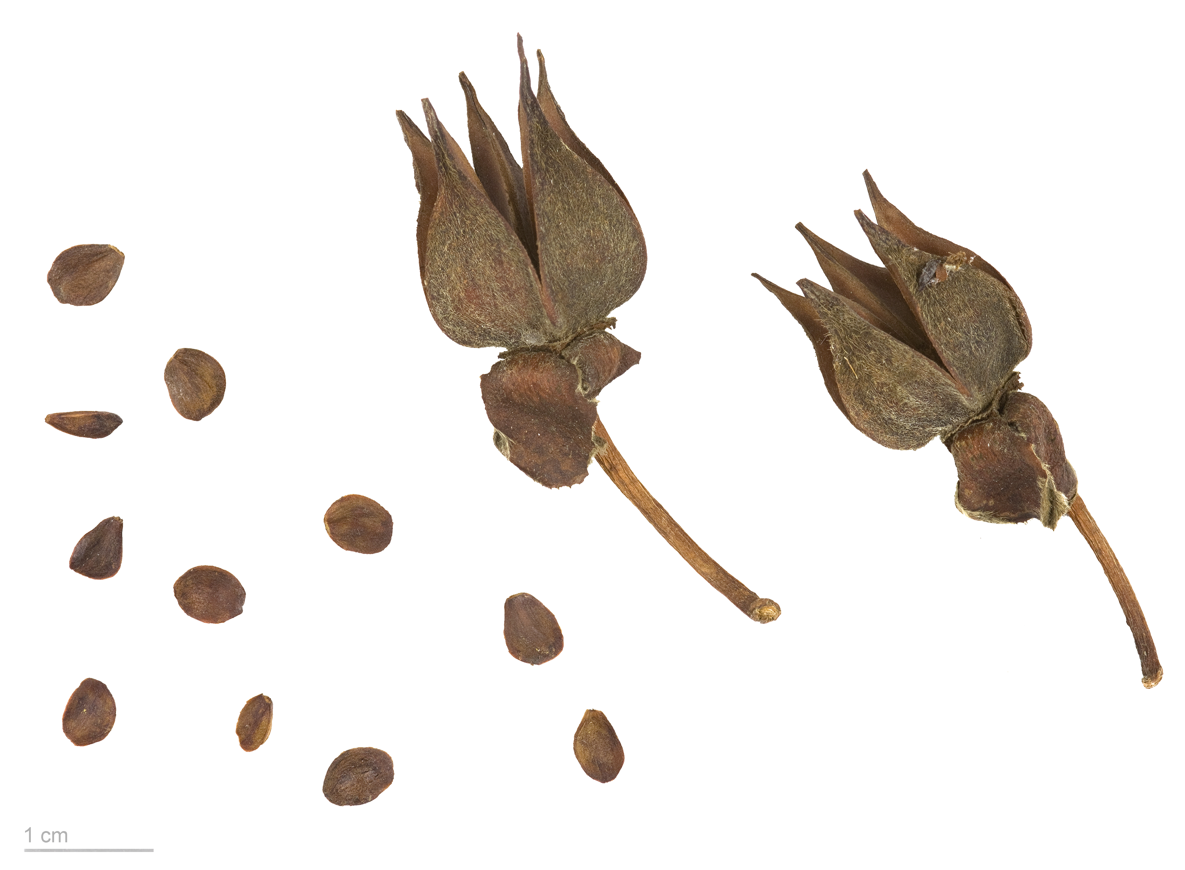 Stewartia koreana , fruits and seeds